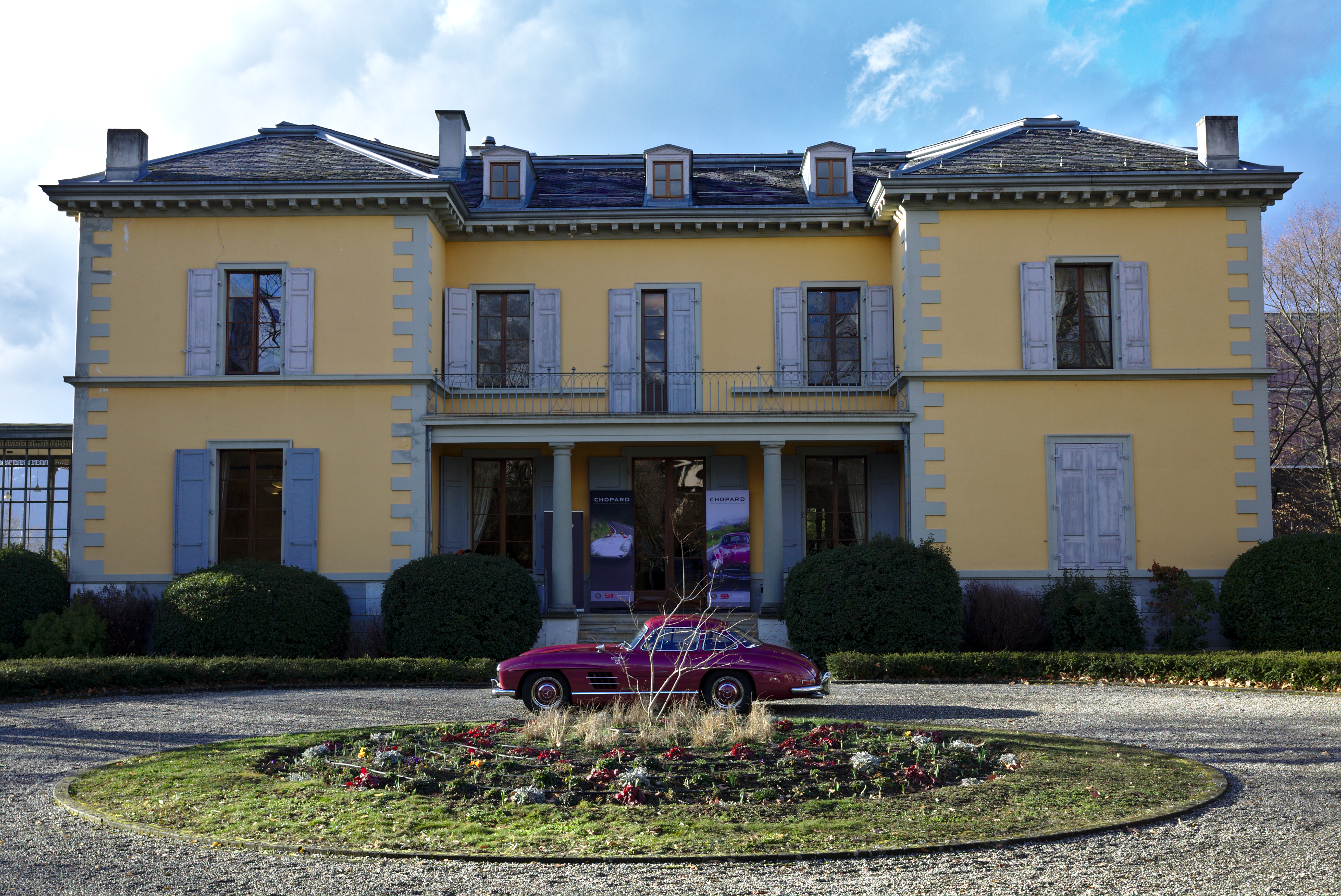 Villa Sarasin in Le Grand-Saconnex in March 2019